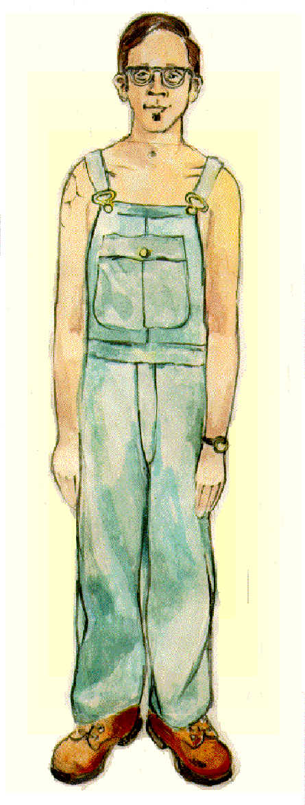 Illustration of Steven in overalls, by Steven